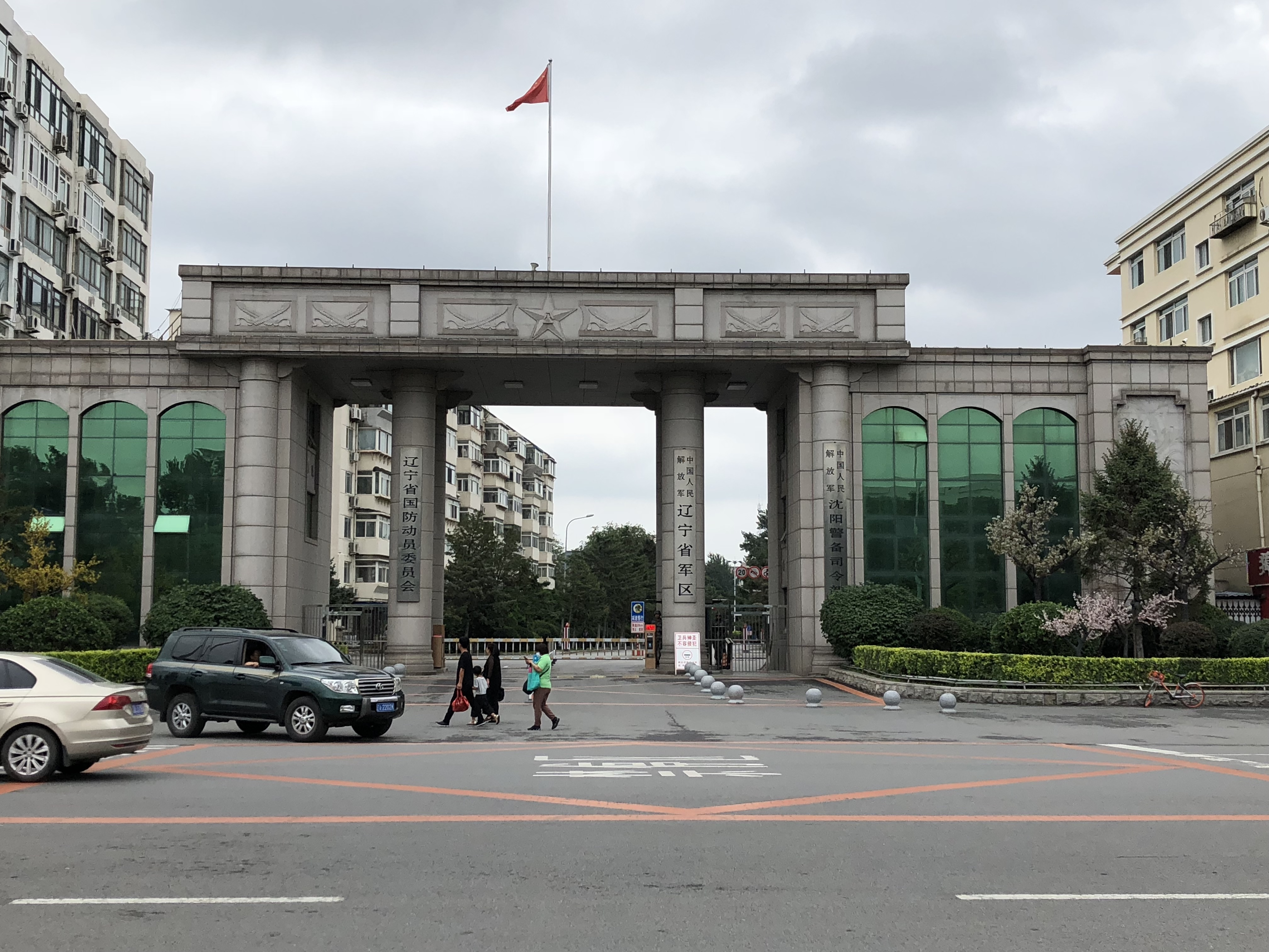 Liaoning Military Region, China